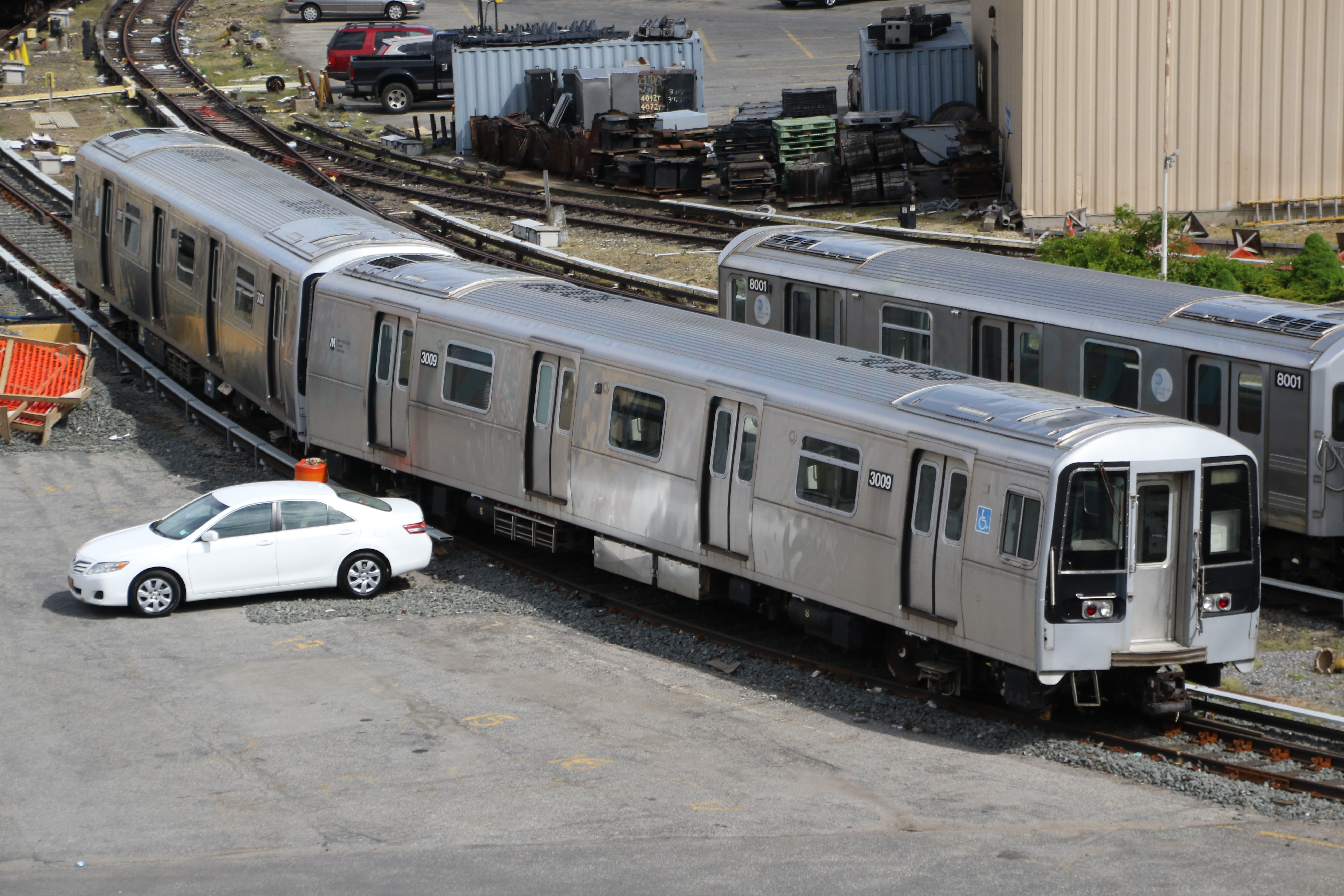 MTA NYC Subway Bombardier Transportation R110B 3009 at the 207th St Yard.